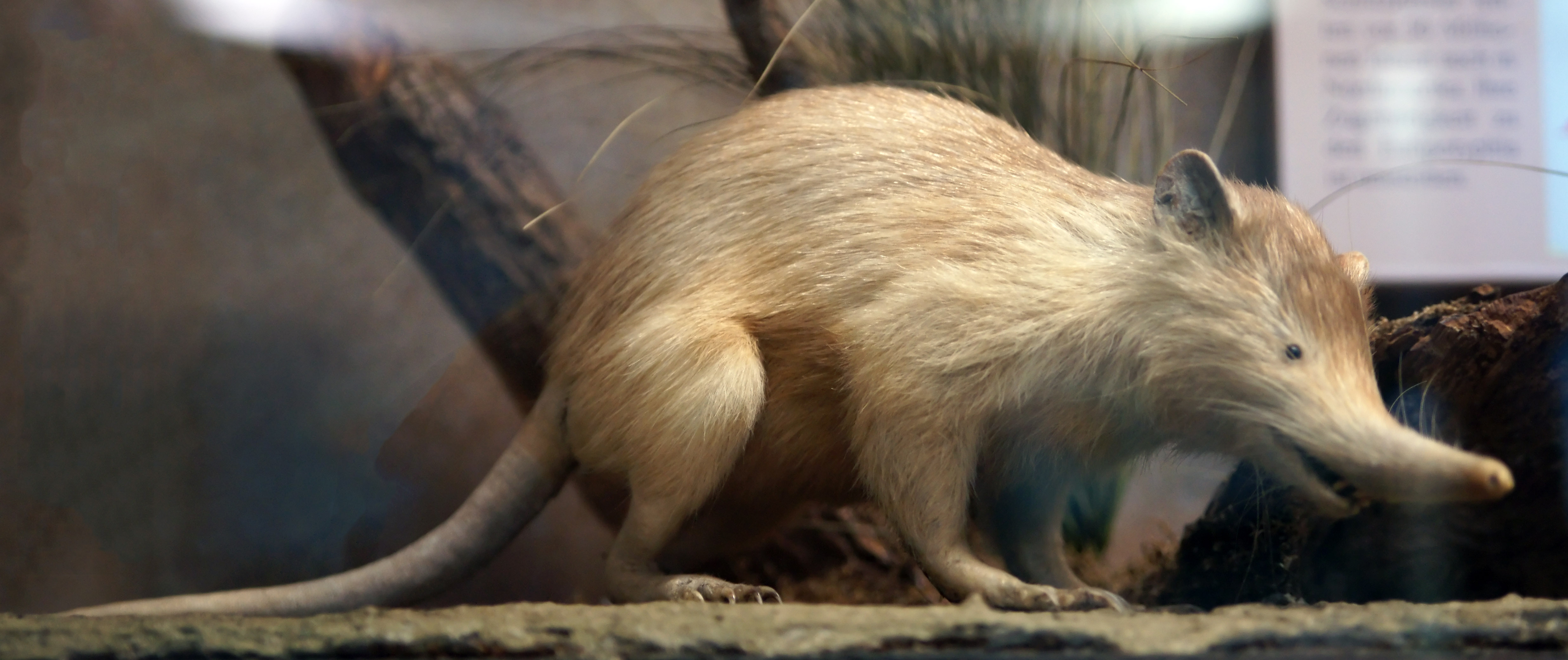 Hispaniolan solenodon, Solenodon paradoxus, stuffed specimen in the Natural History Museum, Vienna.